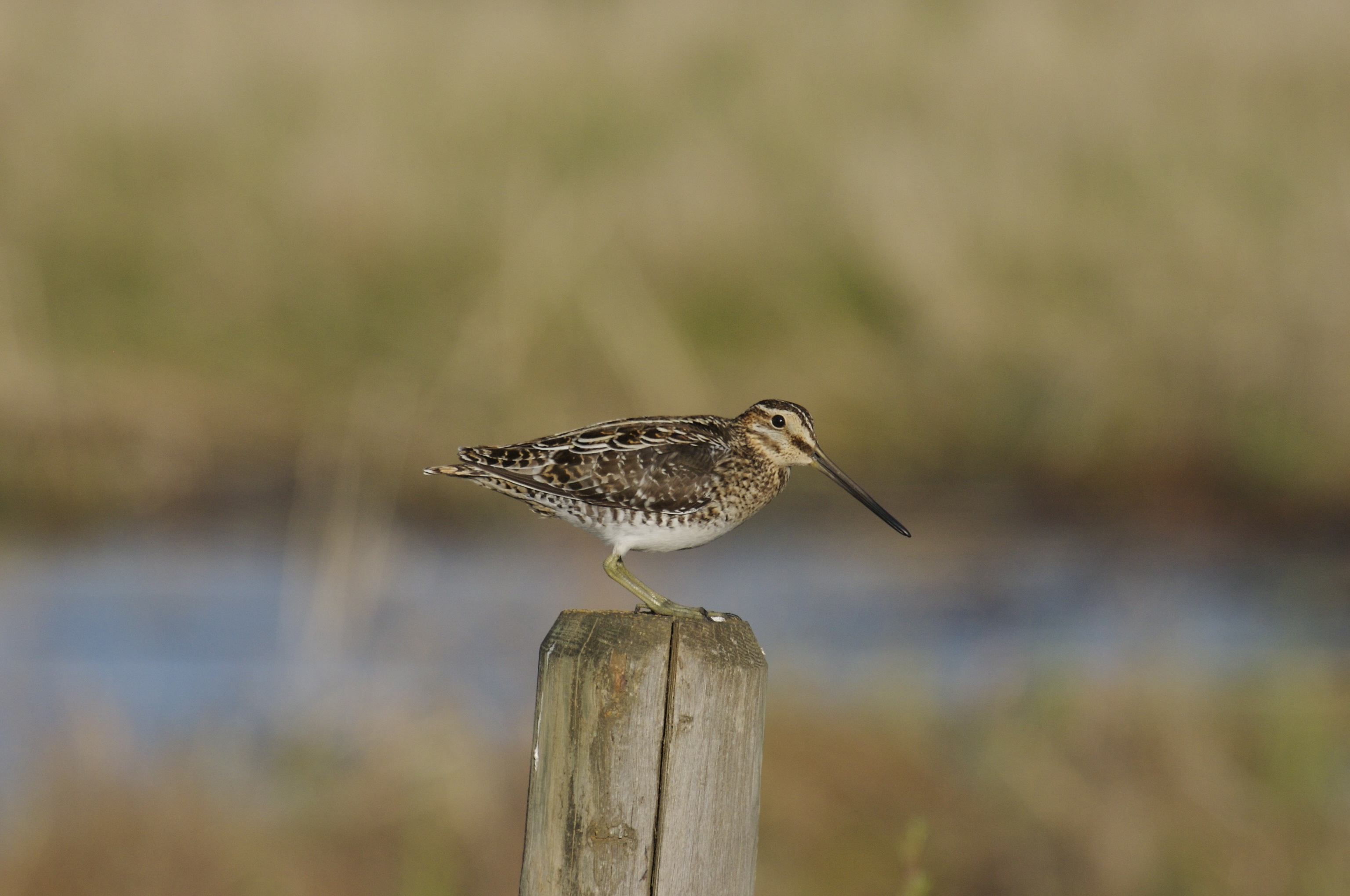 At Cucumber Lake